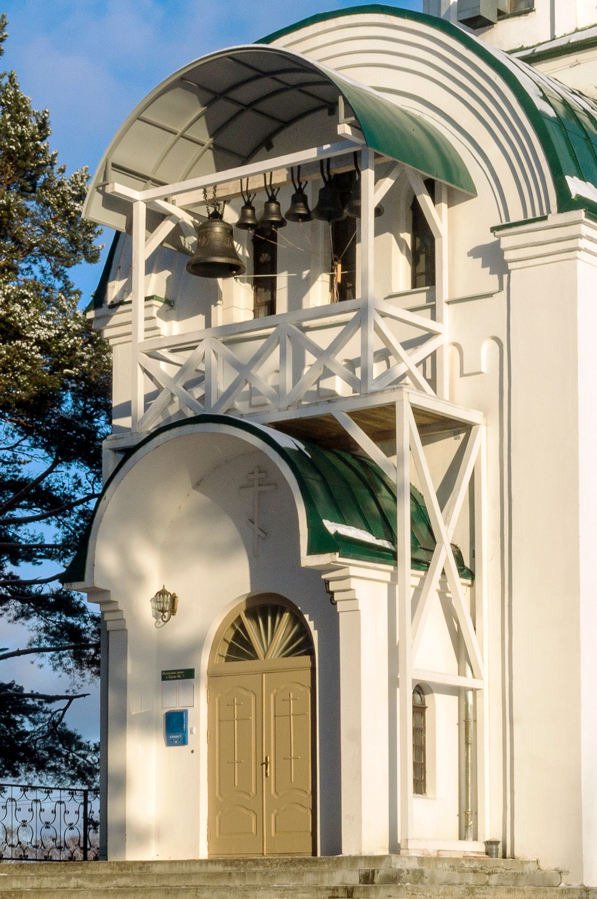 Church of the Holy Patryarch Tikhan (Vileika) 3